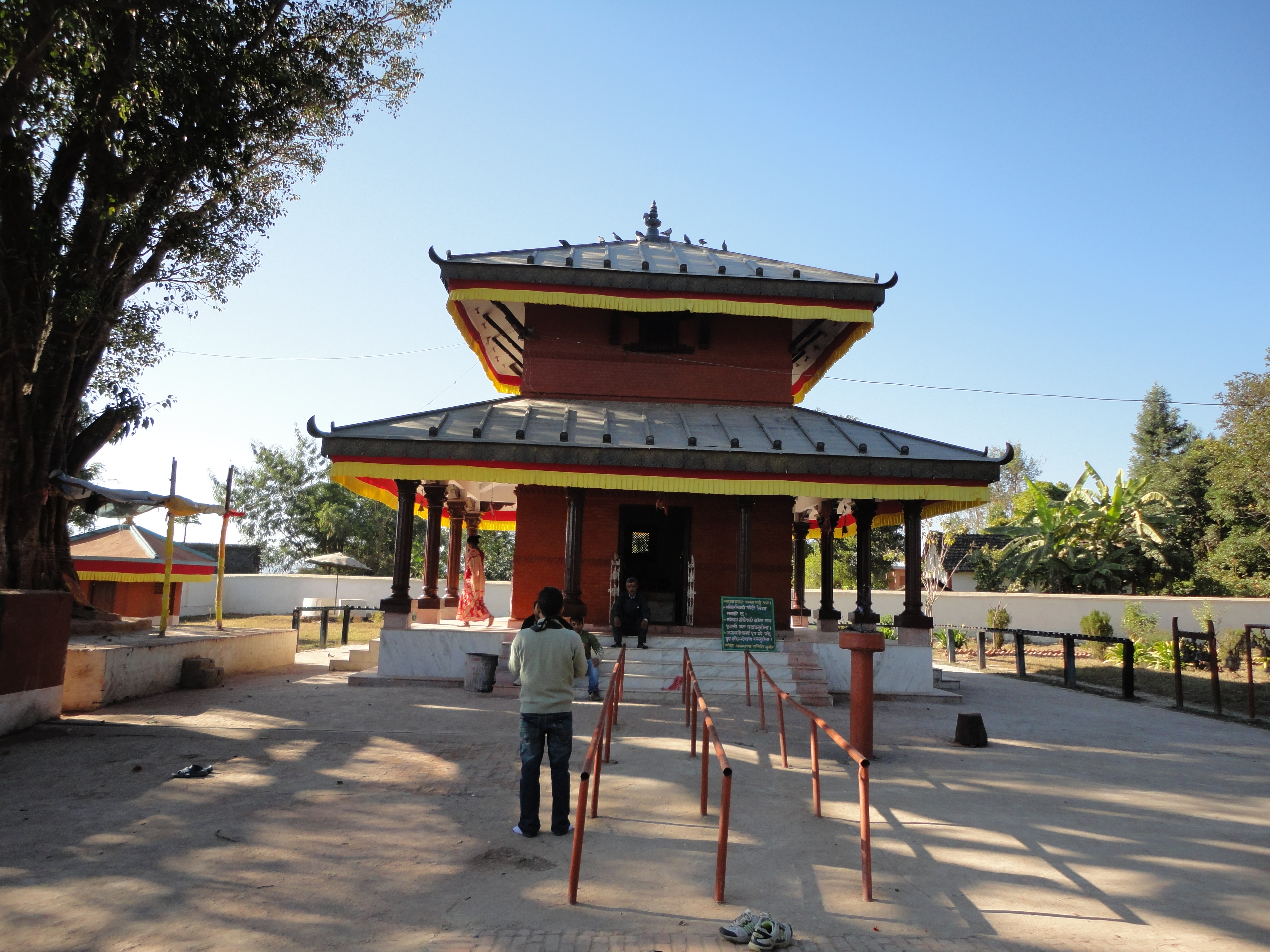 Deuti Bajai Temple in Surkhet District Nepal